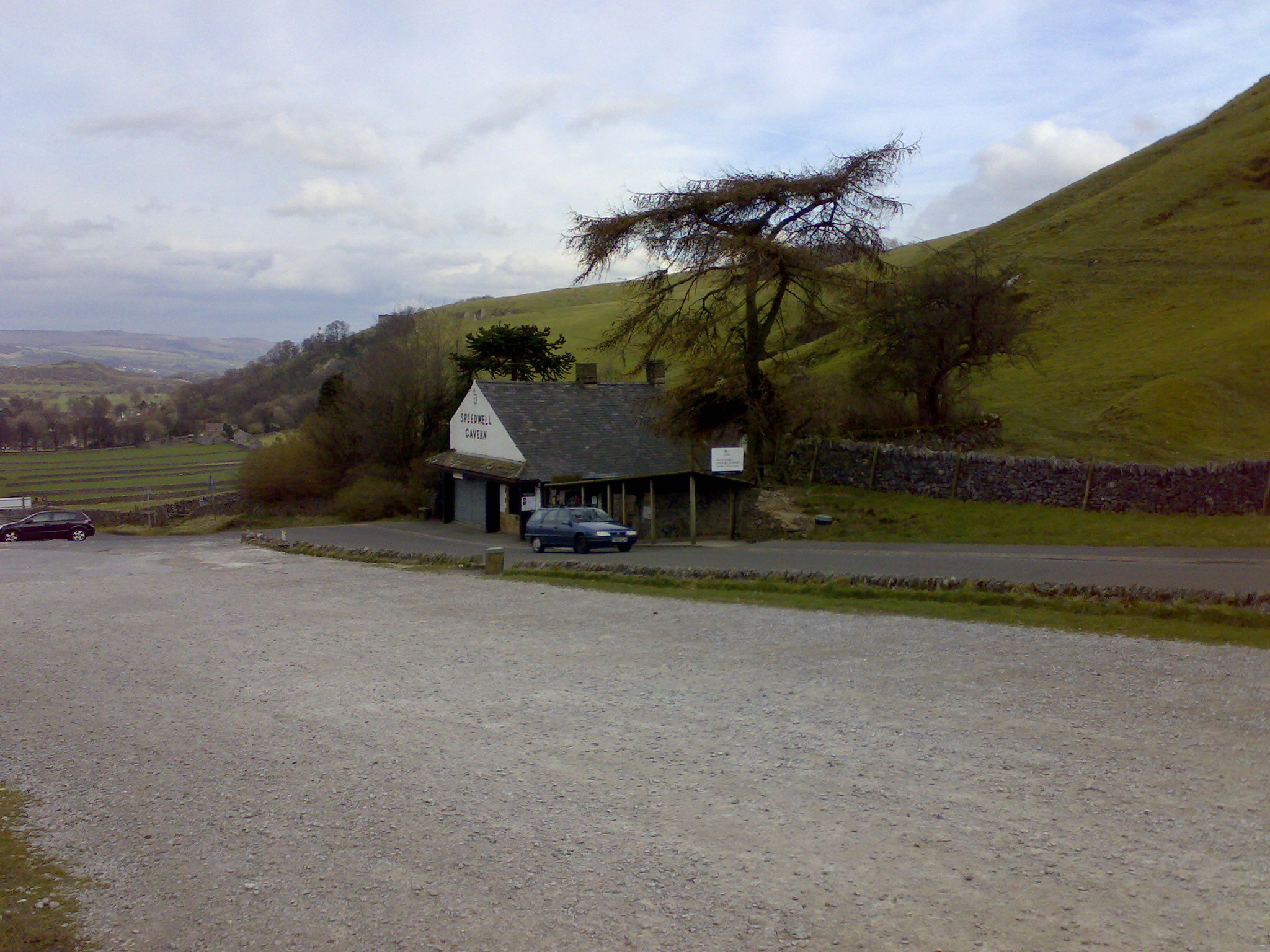 An image of the entrance to Speedwell Cavern in Derbyshire.